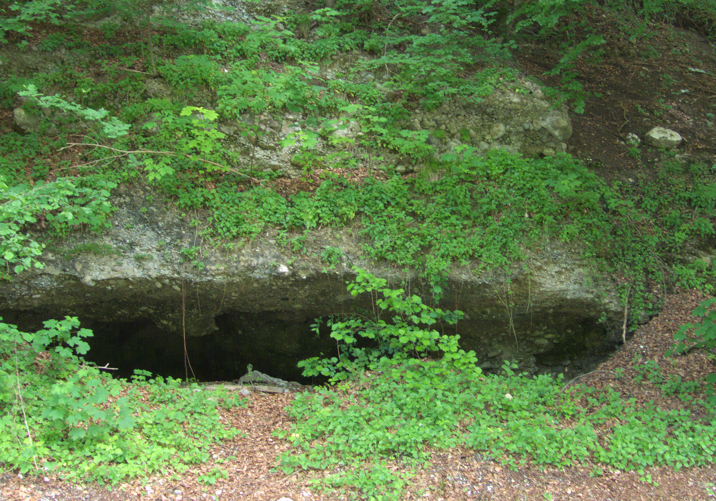 geotope, conglomerate, sheet gravel, Geotop Number: 189A032